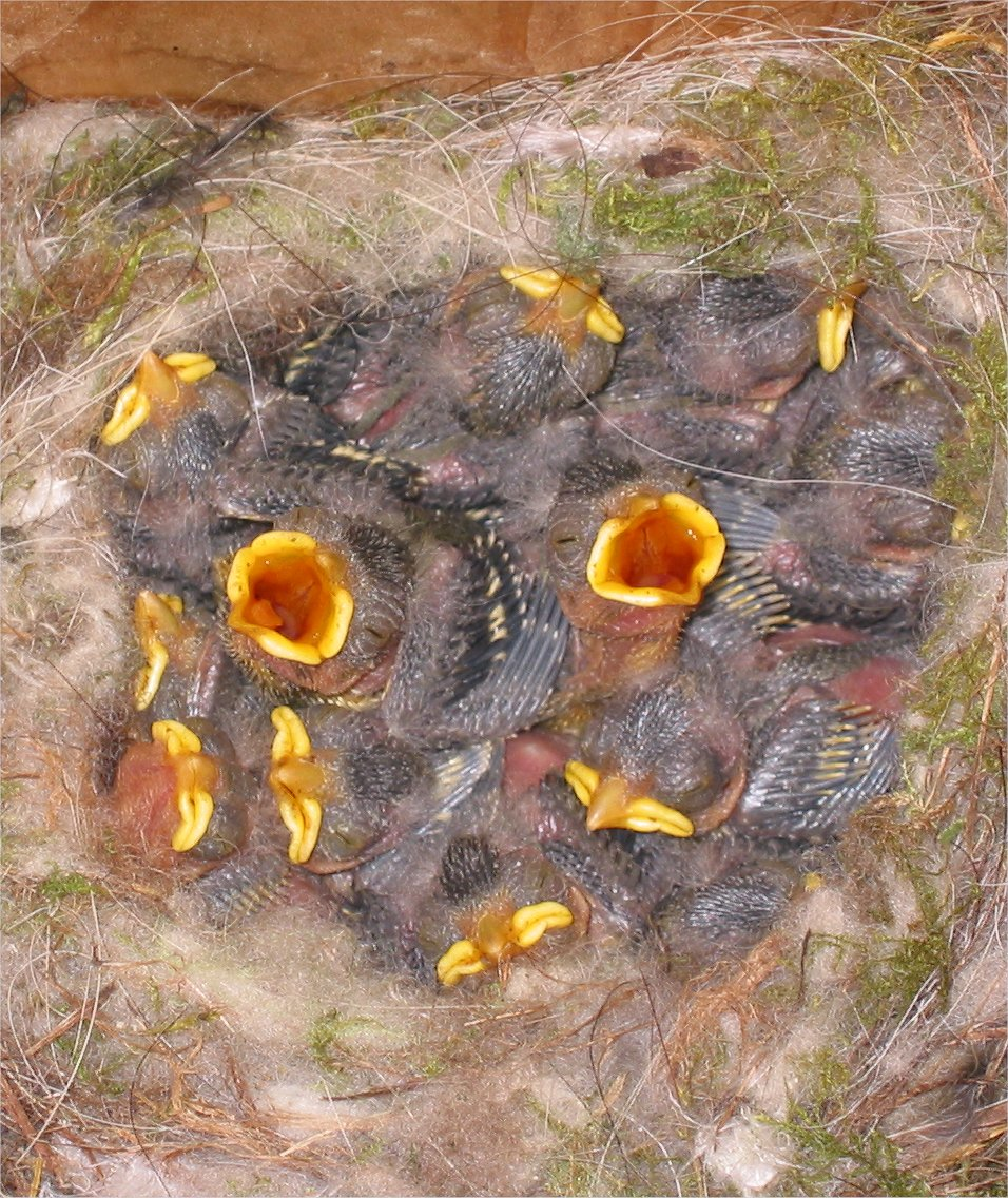 Parus caeruleus